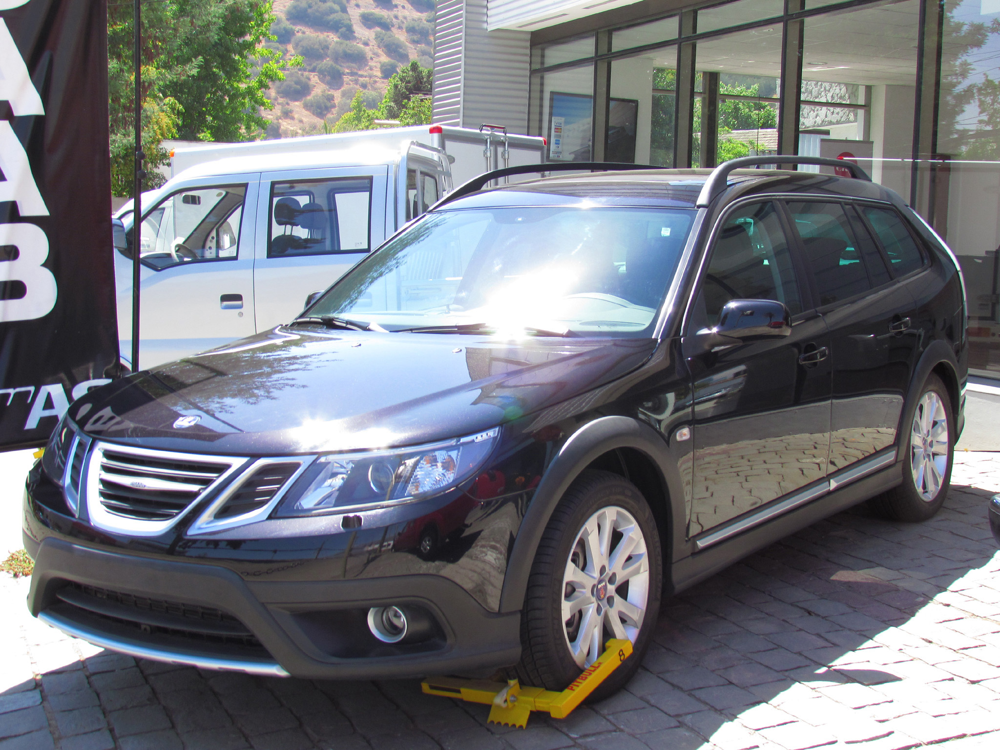 Saab 9-3x 2.0T XWD Sport Hatch 2011